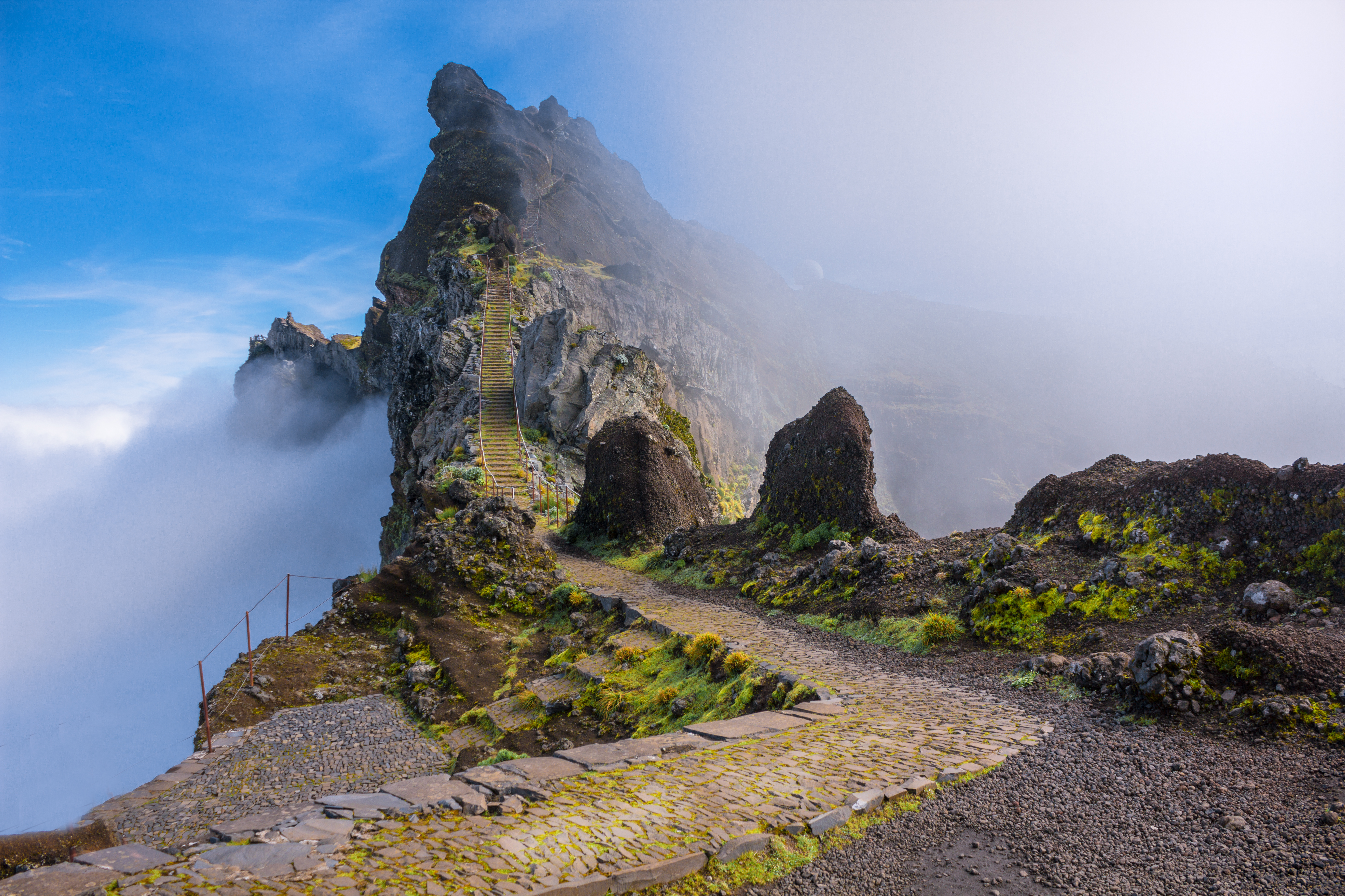 This is an image of the Biosphere Reserve: Santana Madeira